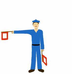 Letter B of the nautical semaphore flag signalling system Source: Martin Hawlisch (User:LosHawlos) My own drawing done in gimp First uploaded to de: in jun-2004